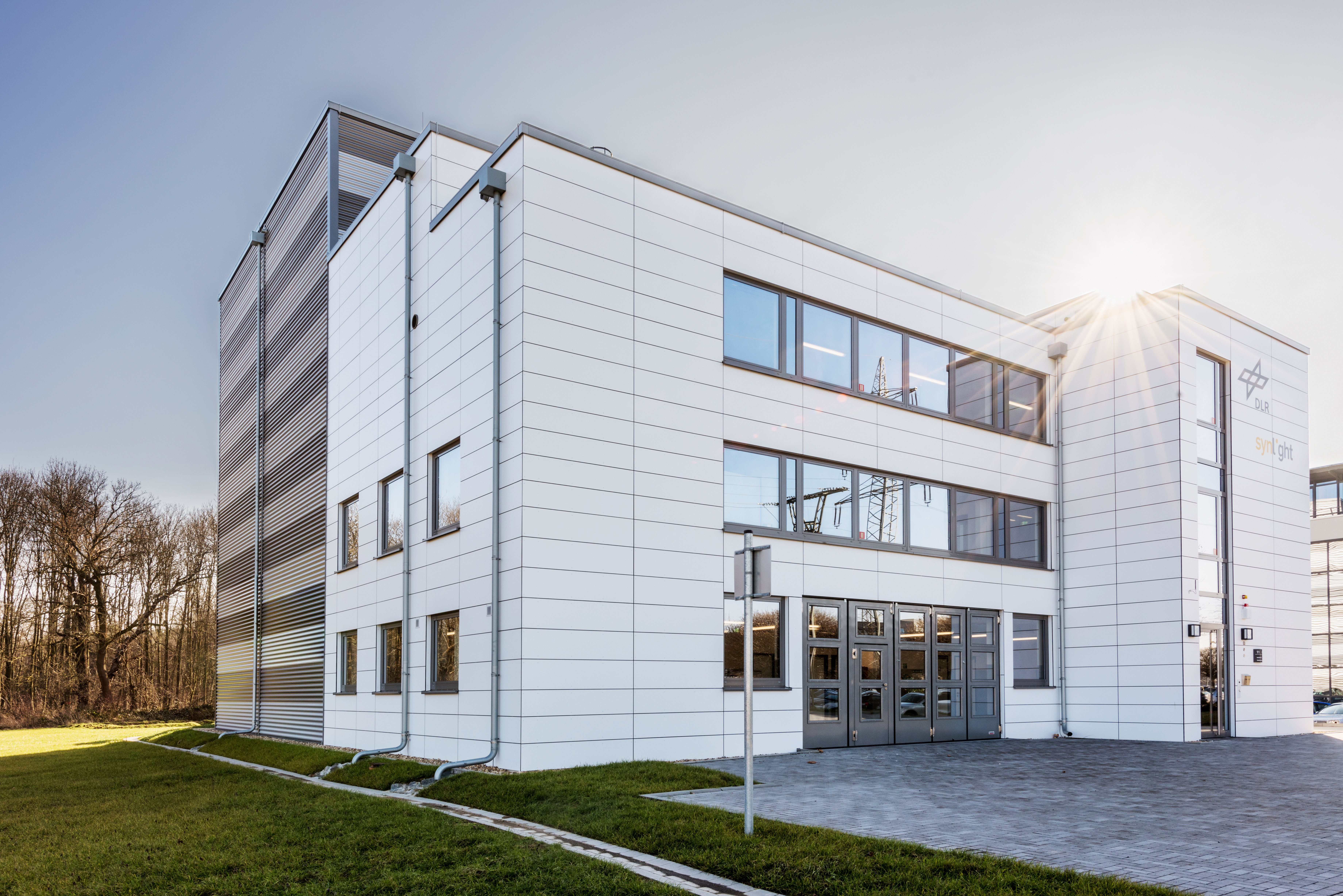 German Aerospace Center building in Jülich containing the “artificial sun” Synlight